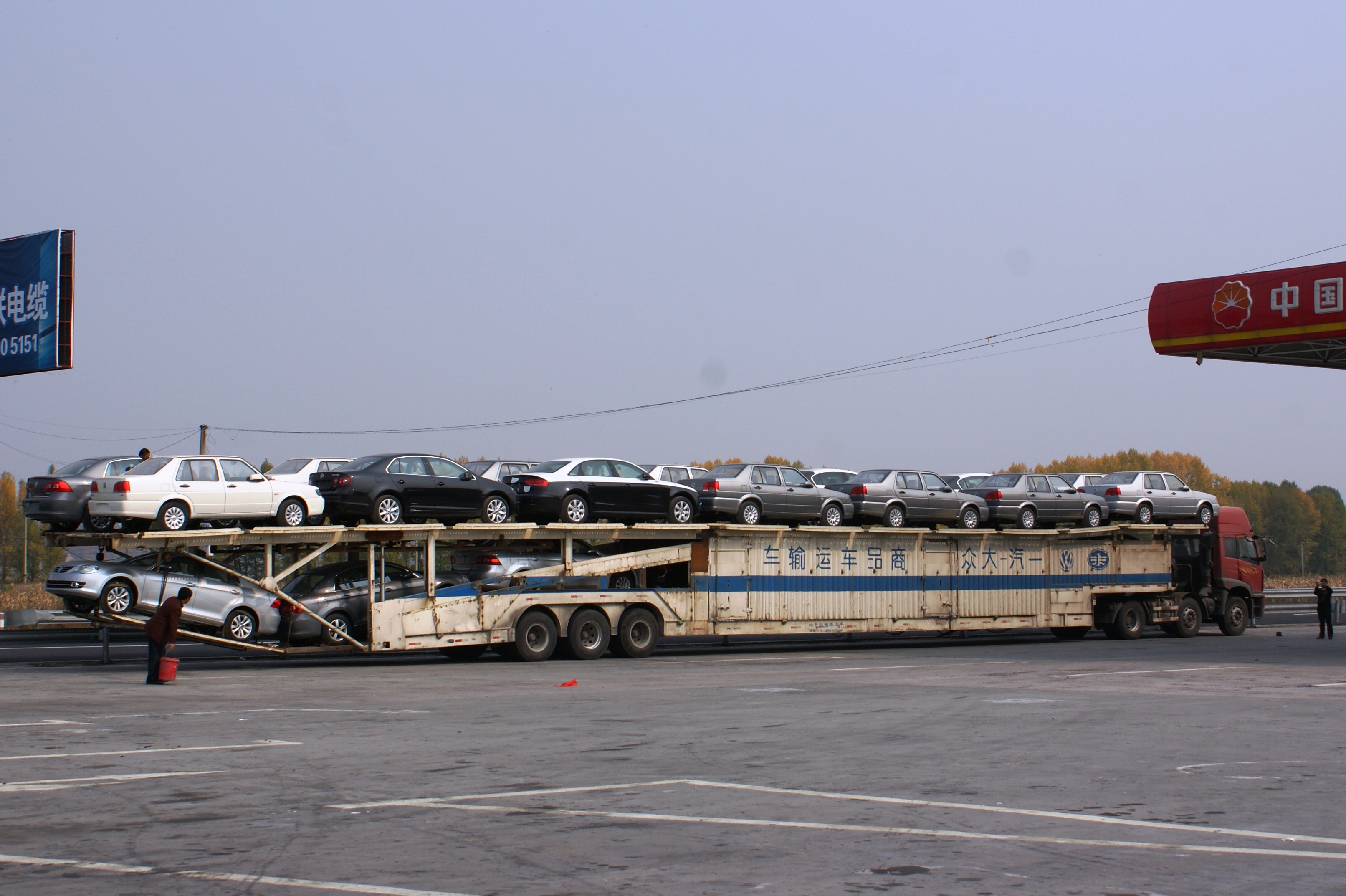 This photo was taken in close to China and Russian border.